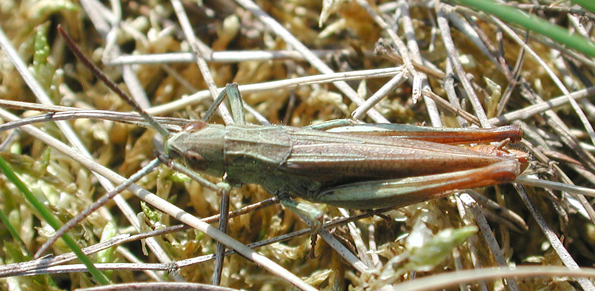 Chorthippus dorsatus, male, Wilsede, Germany